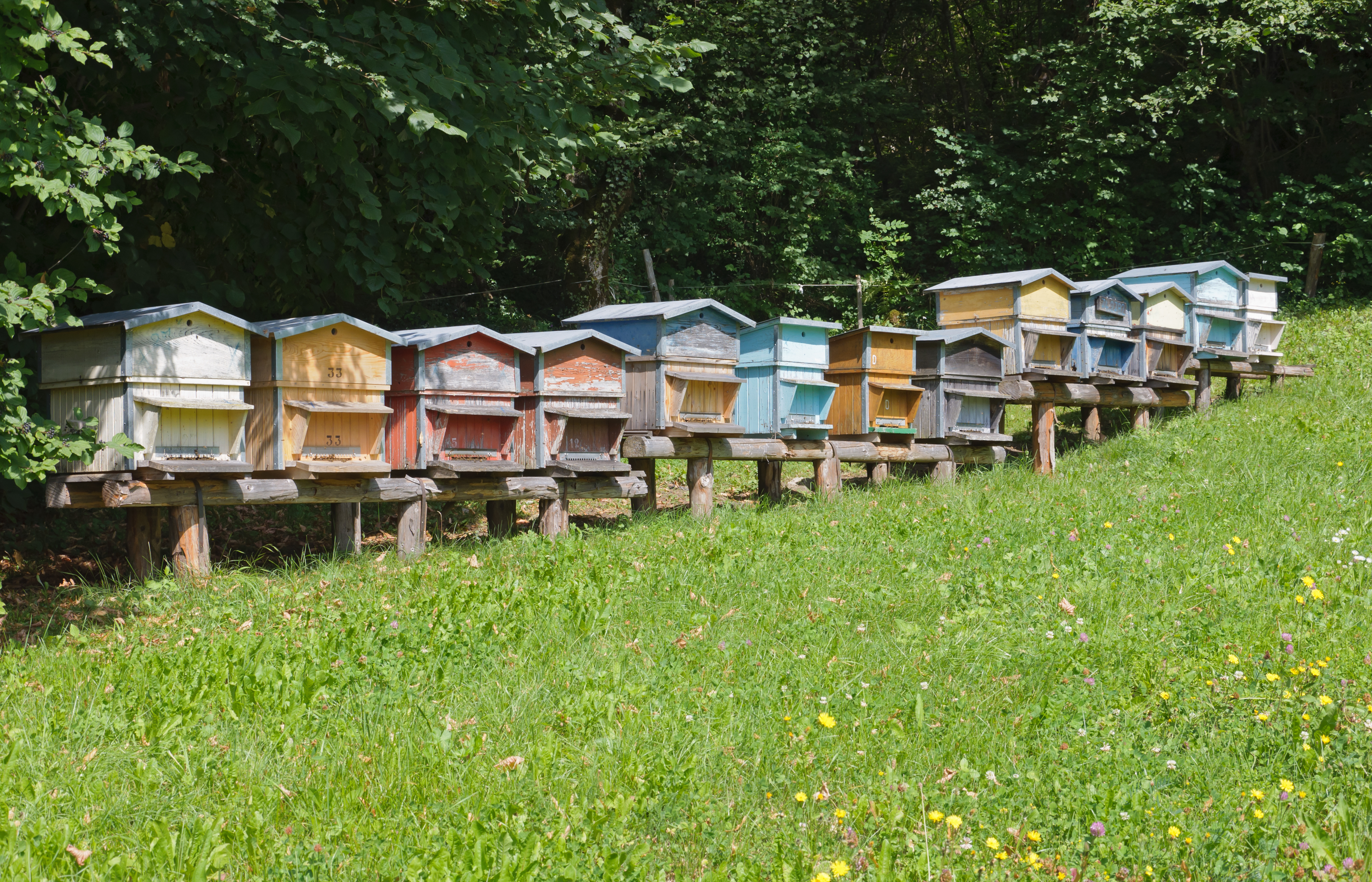 Beehives near La Balme-de-Thuy, Haute-Savoie, France.